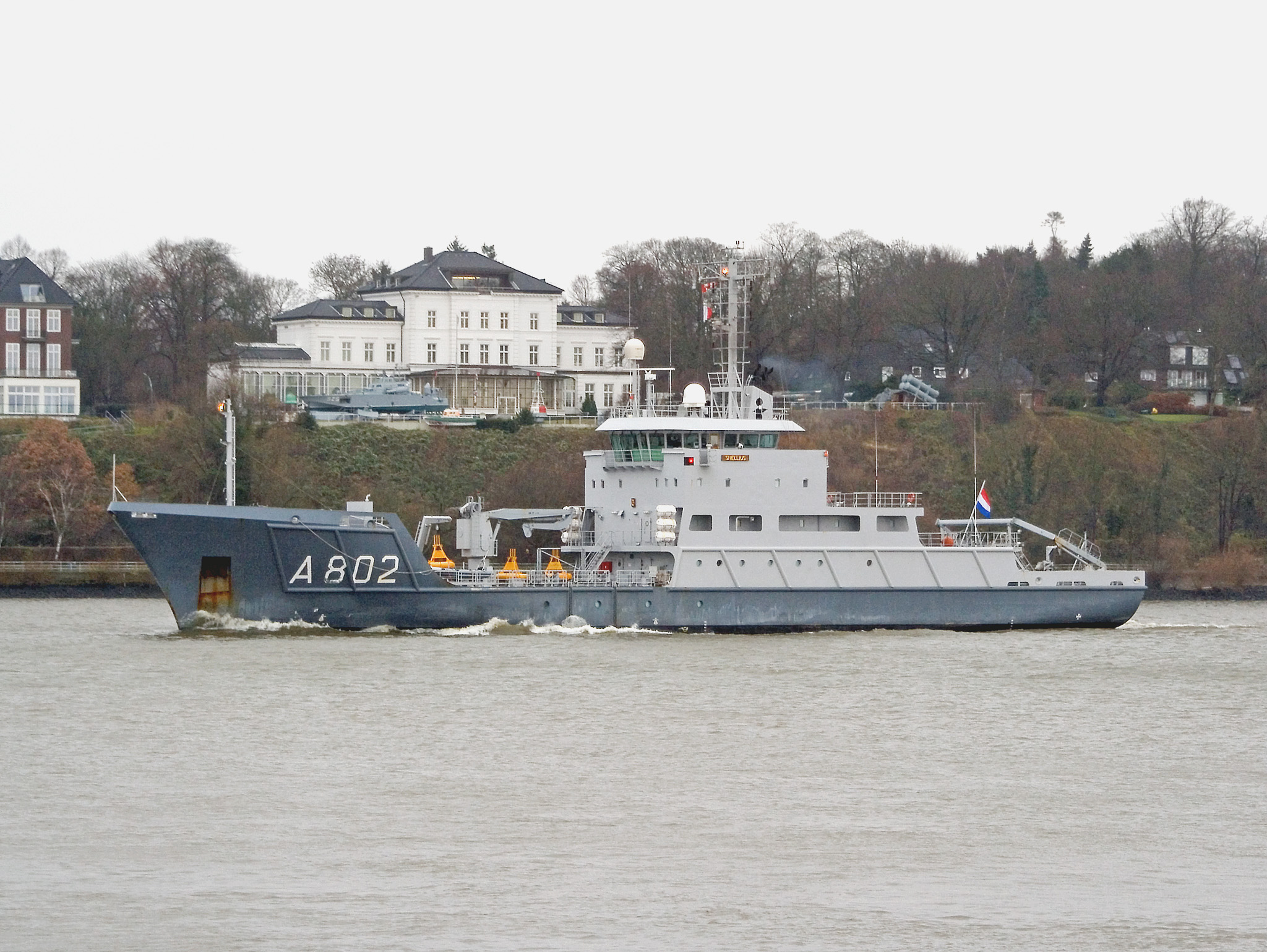 The hydrographic survey vessel HNLMS Snellius (A 802) of the Netherlands Navy sails from Hamburg, Germany.